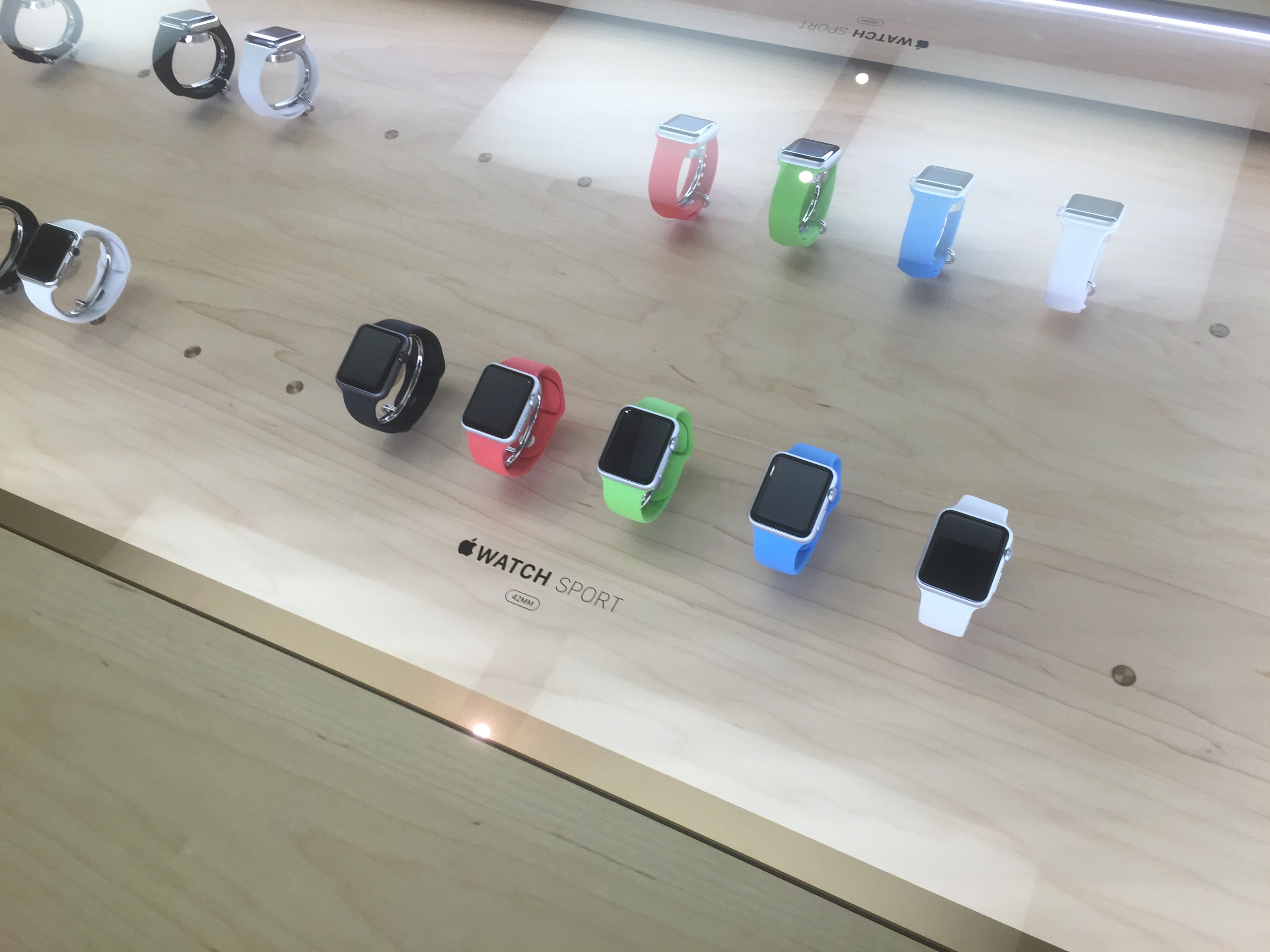 The 2015 introductional model of the Apple Watch Sport on display in the Apple Store in Dresden, Germany